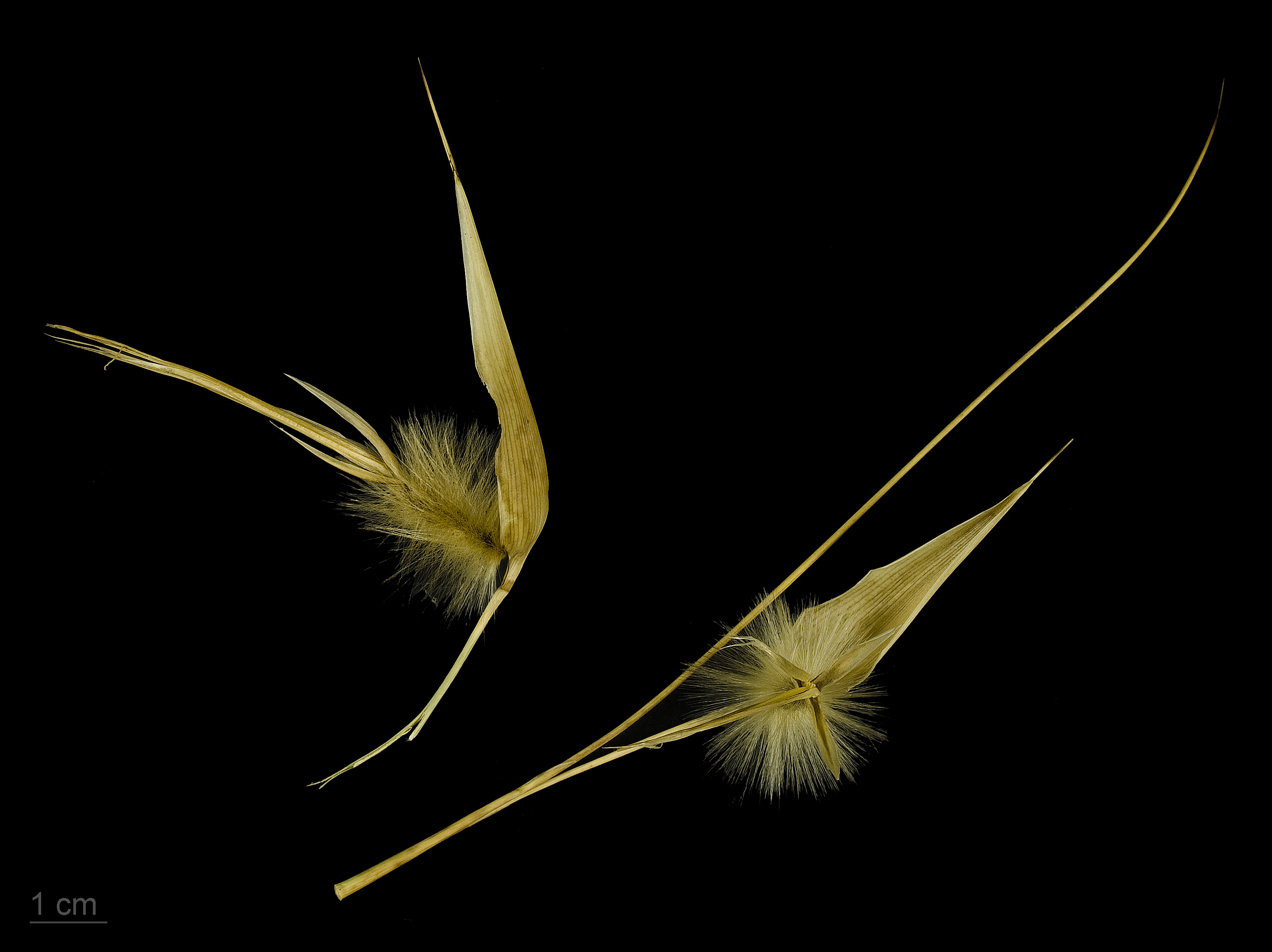 Lygeum spartum , fruits and seeds